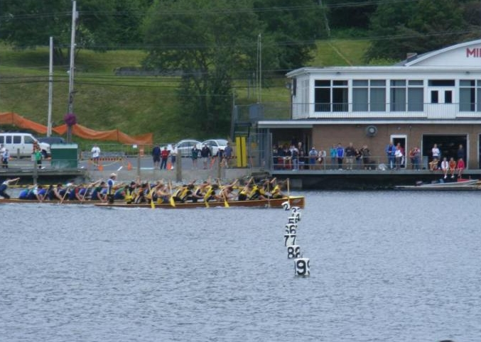 A C-15 (war canoe) race on Lake Banook in Dartmouth, Nova Scotia. Prince Albert Road and MicMac Amateur Aquatic Club can be seen in the background.